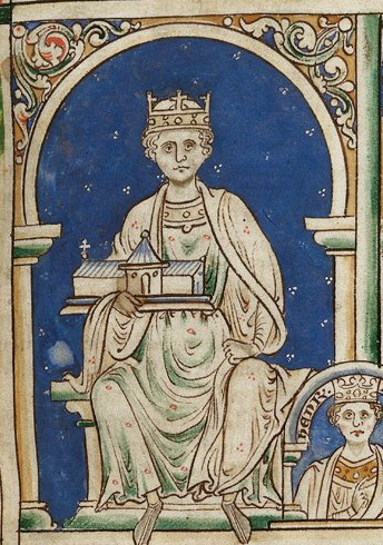 Kings of England: Henry II and his eldest son Henry the Younger. (British Library, MS Royal 14 C VII f.9)